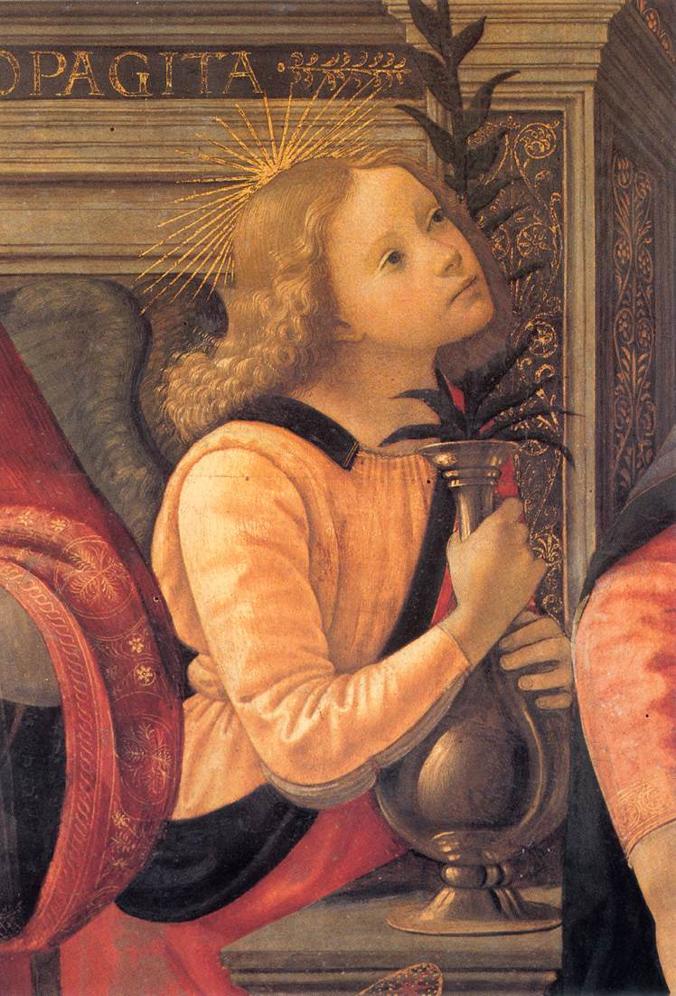 GHIRLANDAIO, Domenico Madonna and Child Enthroned between Angels and Saints Tempera on wood,168 x 197 cm Galleria degli Uffizi, Florence